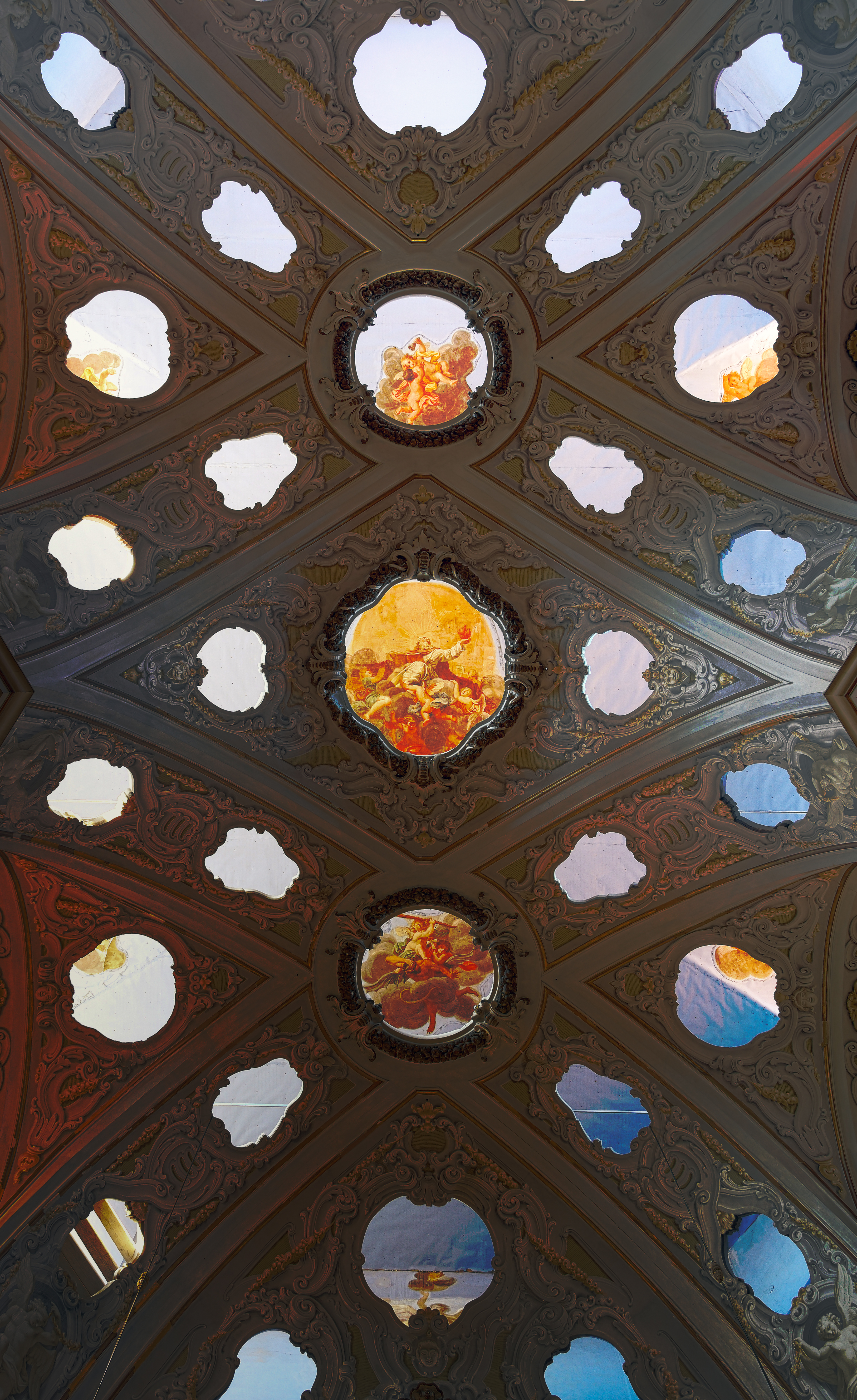 The double dome of Sant'Antonio Abate (Parma)